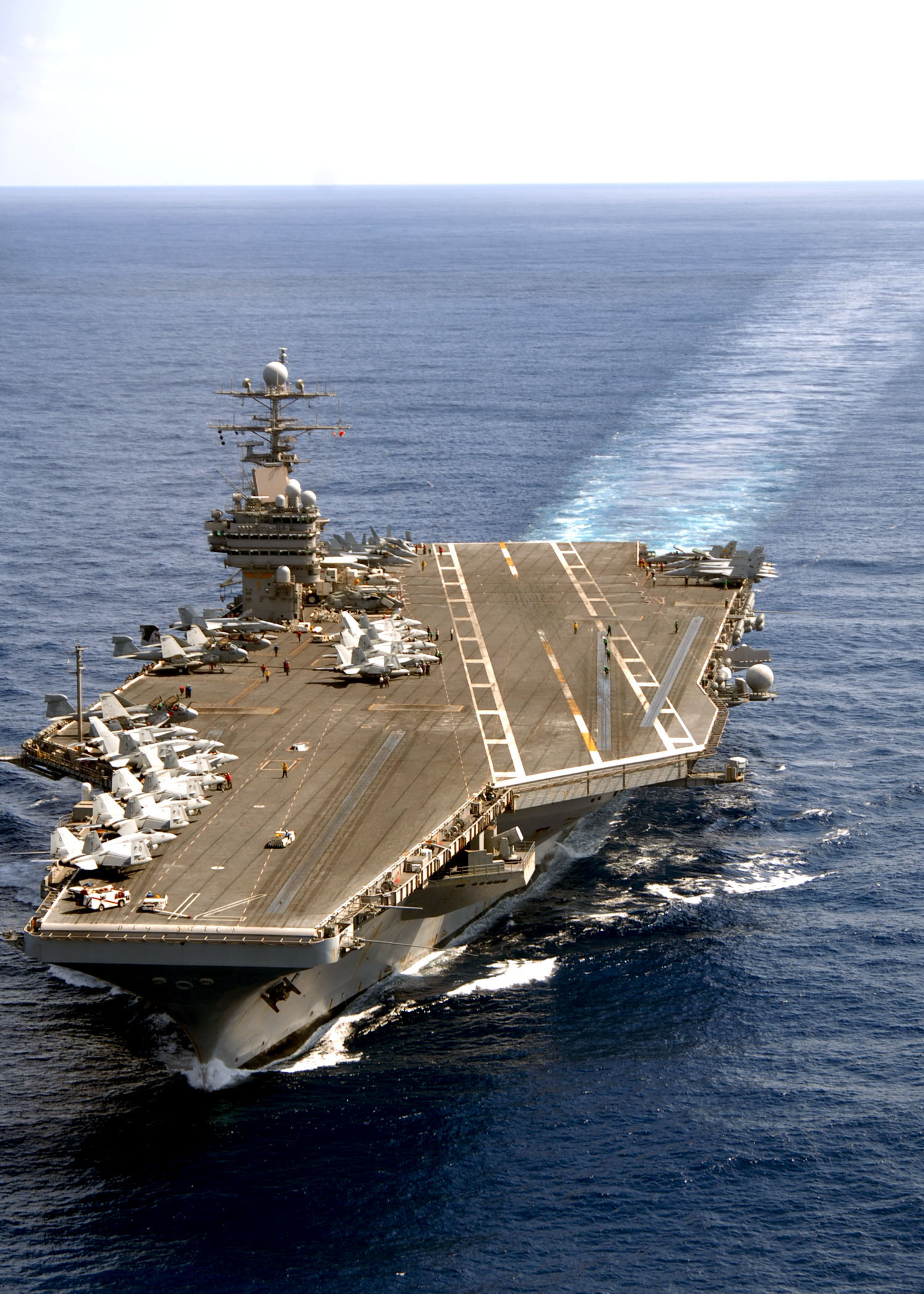 080327-N-2838C-002 ATLANTIC OCEAN (March 27, 2008) The Nimitz-class aircraft carrier USS Theodore Roosevelt (CVN 71) steams in the Atlantic Ocean. Roosevelt and embarked Carrier Air Wing (CVW) 8 are conducting a tailored ship's training availability and final evaluation problem. U.S. Navy photo by Mass Communication Specialist 2nd Class Michael D. Cole (Released)